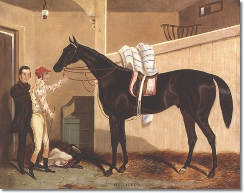 Voltigeur In Stable. 1850 Epsom Derby winner. Painting by William Barraud (1810-1850)